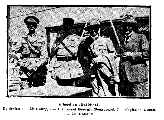 Date: 1921.